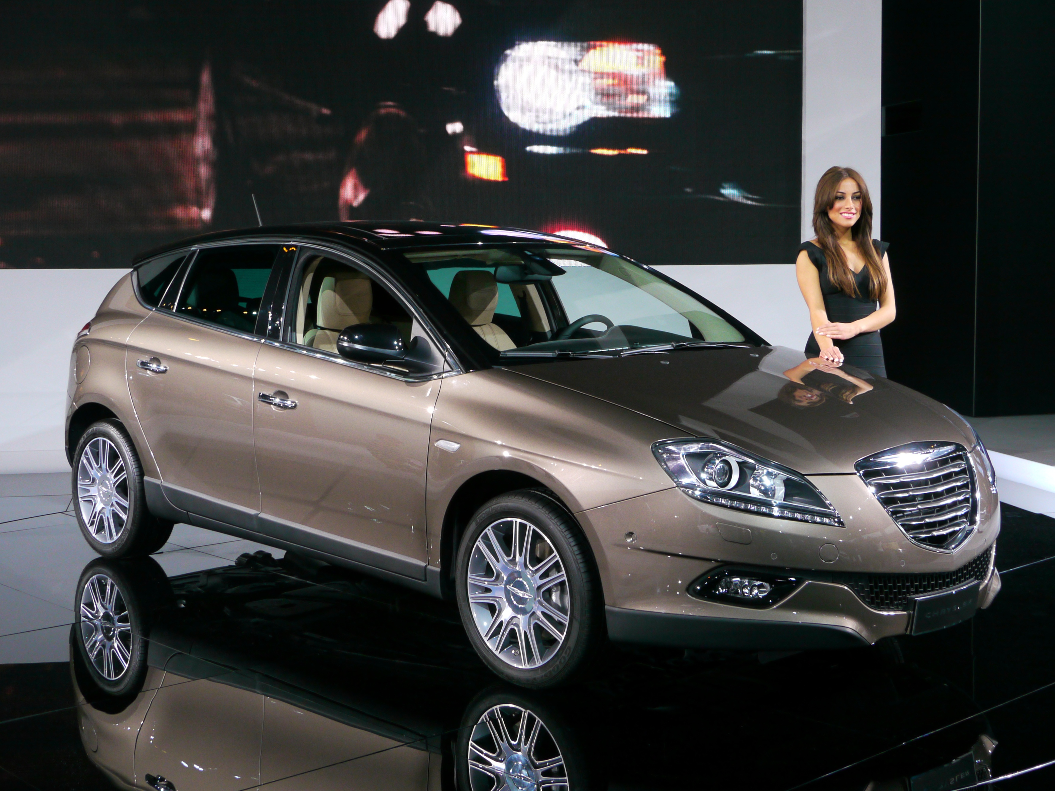 Chrysler-Lancia Delta Concept at Chicago Auto Show 2010.